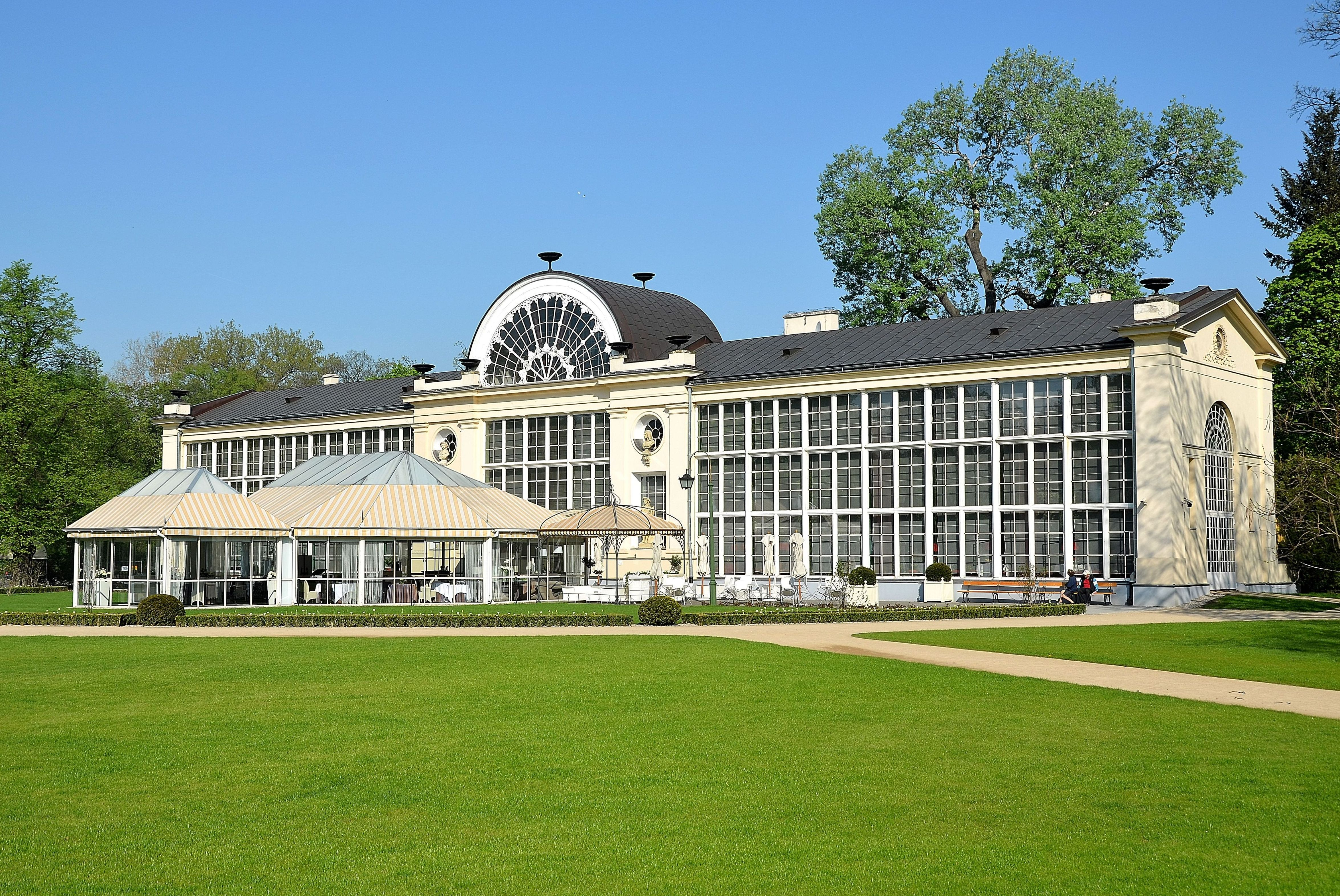 The New Orangery in the Łazienki Park in Warsaw (listed in the Register of Historic Monuments on 28.07.1973, reference no. 2/12)